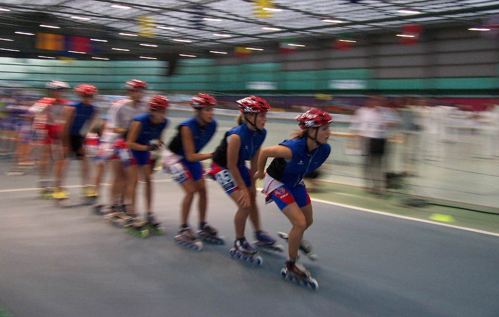 Inline speed skaters warming up at the 2004 European Championships in Barañain (Navarra), Spain.